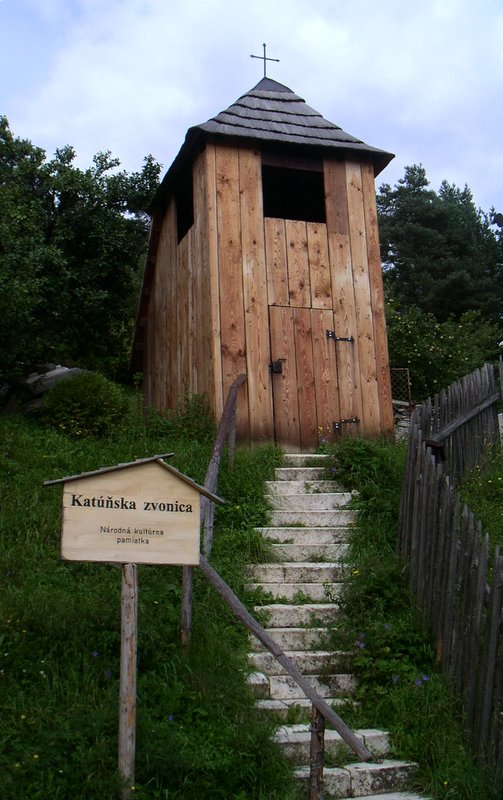 Belltower at Katúň. User:Smerus took this photo.